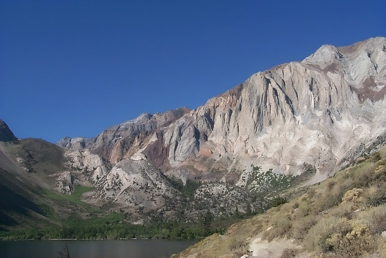 Sevehah Cliff, composed of folded metamorphic rock, behind Convict Lake, Sierra Nevada, California, USA